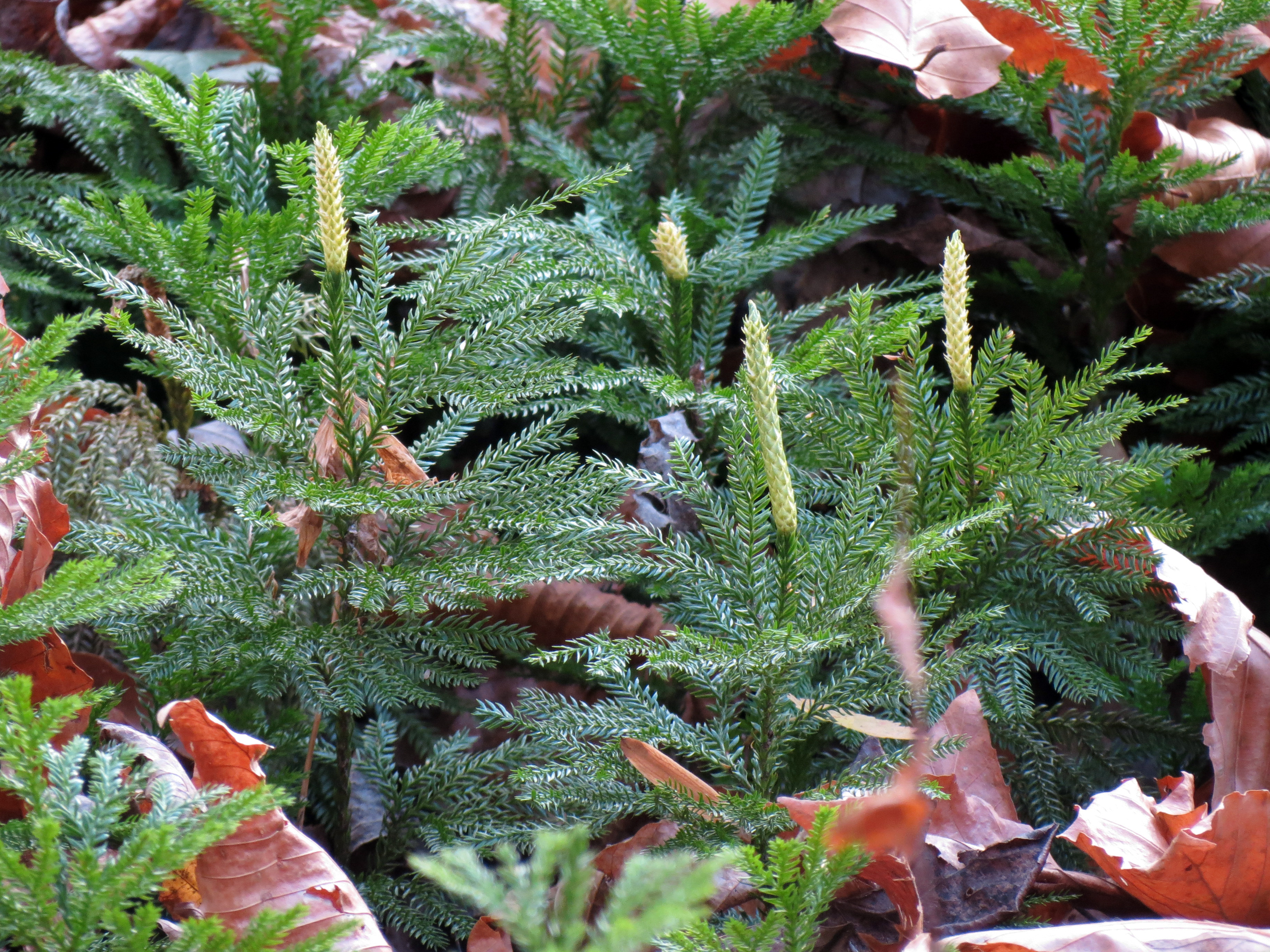 Dendrolycopodium obscurum. Rock Creek Park, Washington, DC, USA.